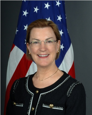 Judith Fergin, U.S. diplomat. As of 2010, U.S. Ambassador to East Timor (Timor-Leste).